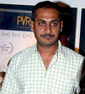 Director Abhinav Kashyap at the premiere of the film Antarwand